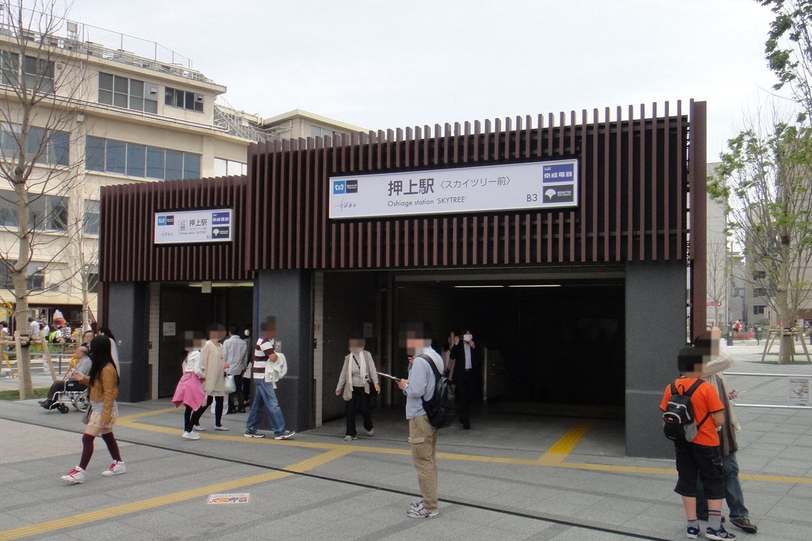 Exit B3 of Oshiage (Skytree) Station